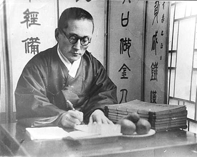 Lee Kwang-su, Korean writer